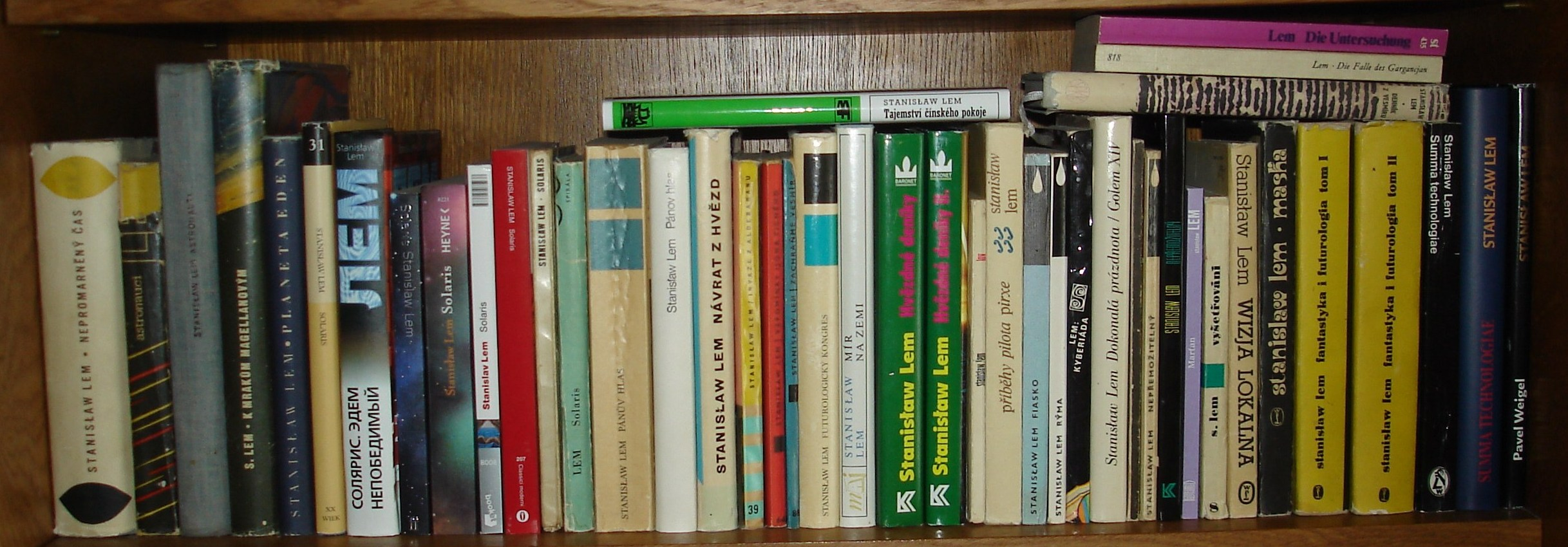 Shelf of books by (and one about) Stanisław Lem in nine different languages, showing the spines only.